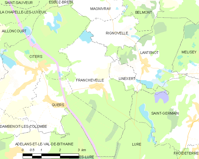 Map of French municipality